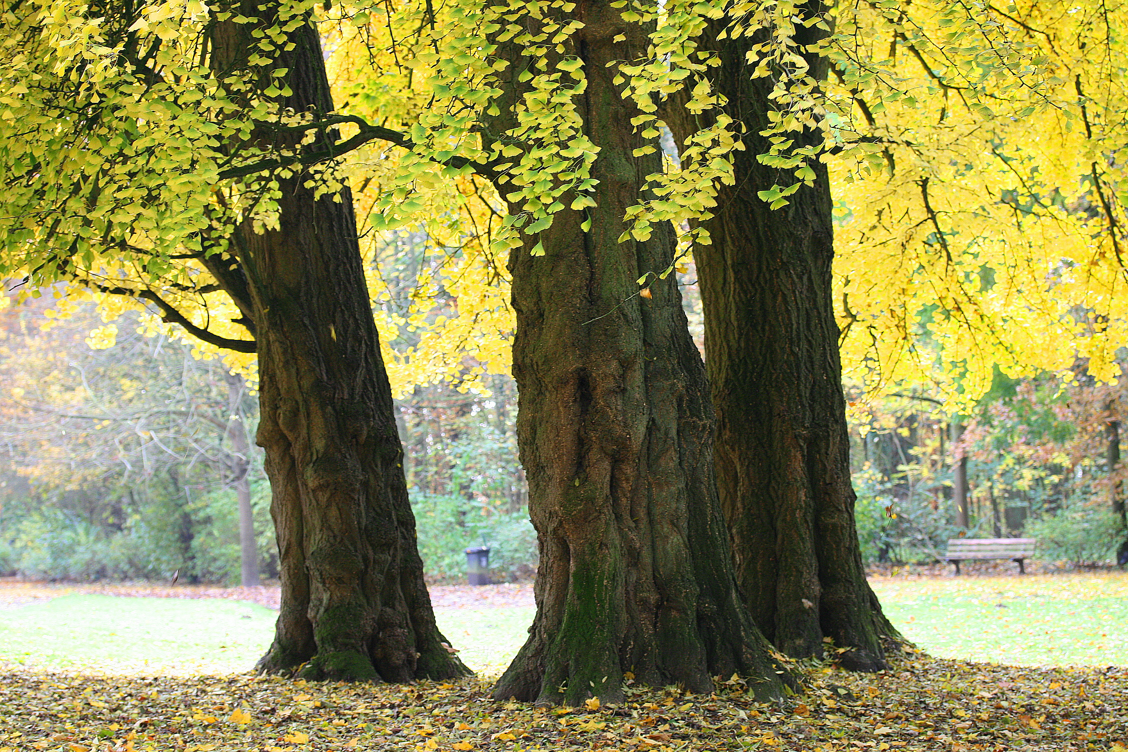 Ginkgo biloba also known as Maidenhair Tree.